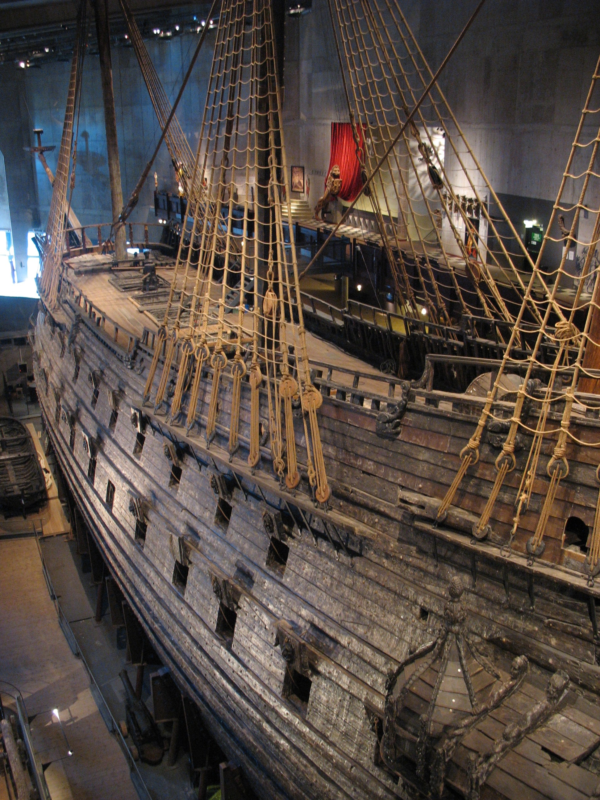 The museum ship Vasa shot from port.